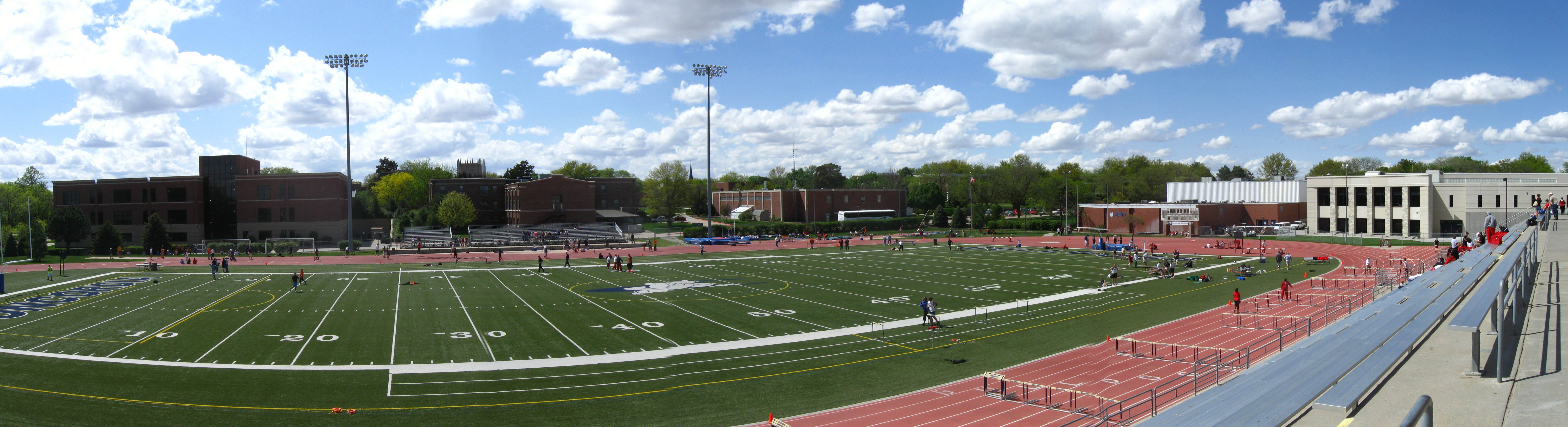 This photo shows Bulldog Stadium on the campus of Concordia University, Nebraska. Several other campus buildings can be seen including the (then) recently completed Walz Human Performance Complex